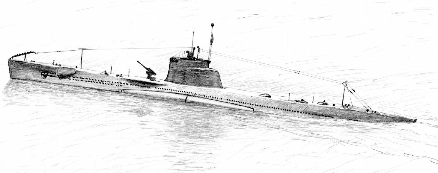 Italian submarine Fisalia of WWII. Scanned drawing.